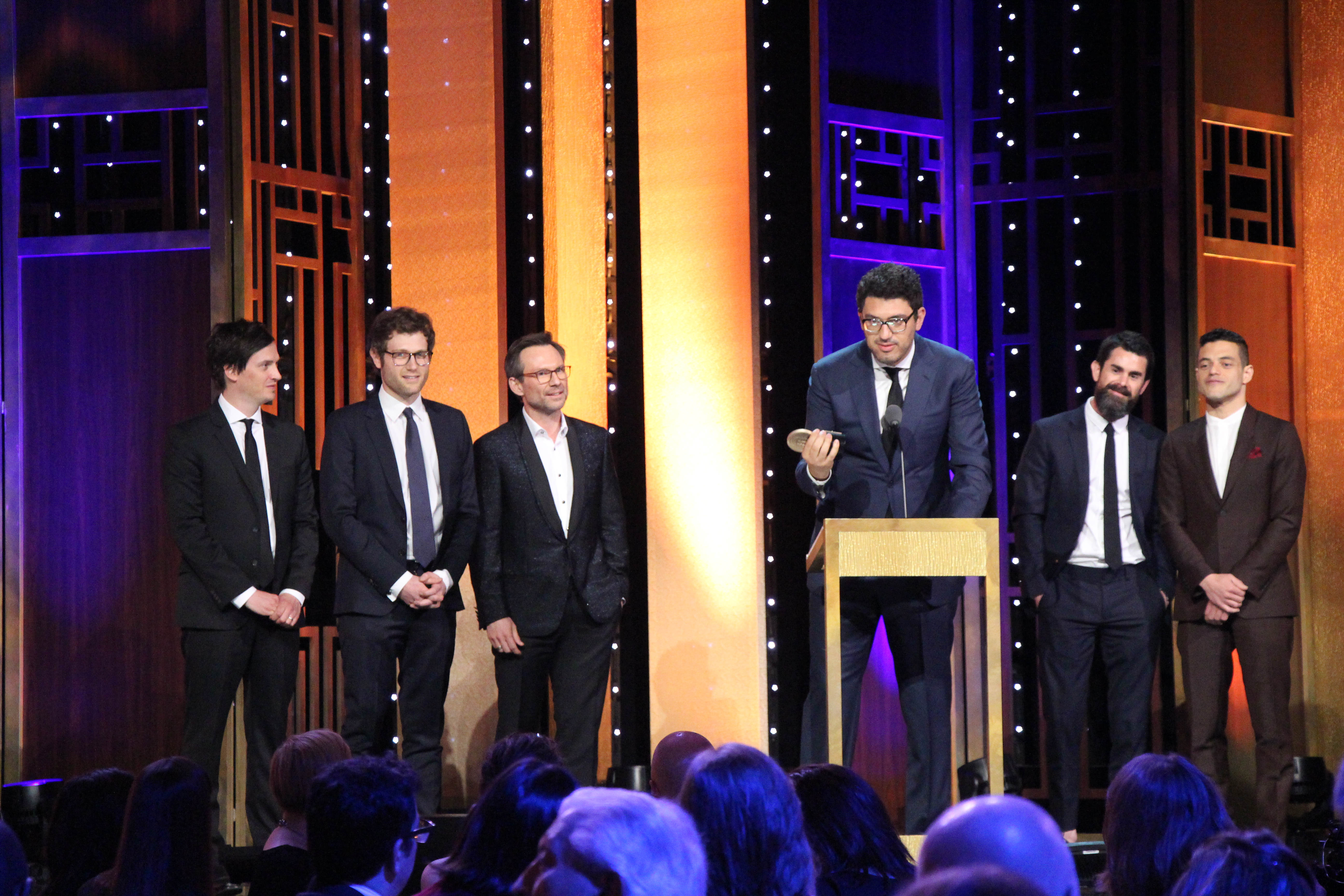 This photo includes Writer/ Co-Executive Producer Kyle Bradstreet, Writer Adam Penn, Actor Christian Slater, Creator/Executive Producer/Writer/Director Sam Esmail, Executive Producer Chad Hamilton and Actor Rami Malek accepting the Peabody for "Mr. Robot." (Photo/Sarah E. Freeman/Grady College, in New York City, Georgia, on Saturday, May 21, 2016)